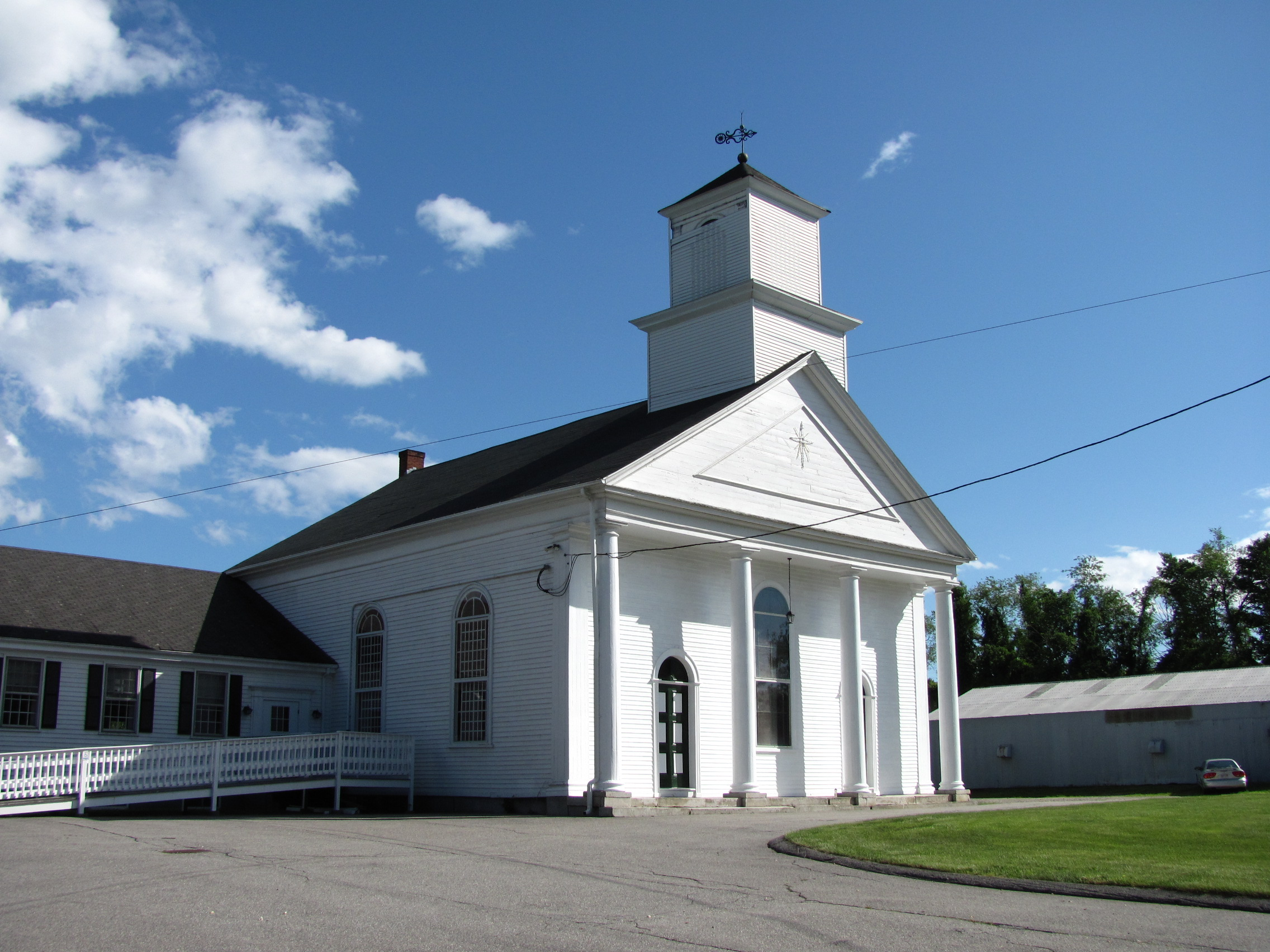 First Baptist Church of Sutton, West Sutton Massachusetts